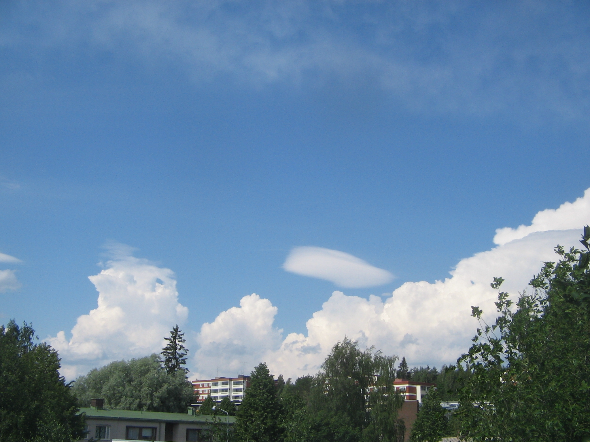 Meteorology/Cloud types:Cumulonimbus calvus-clouds of closing cold front on summer day.